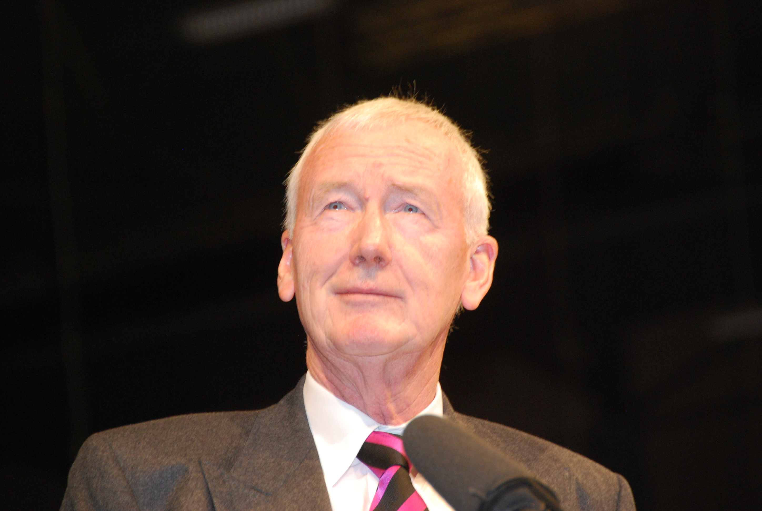 Nils Bernstein, Danish Central Bank Govenor 2005-, photographed during the Skills Denmark 2011 competition, held in Odense.